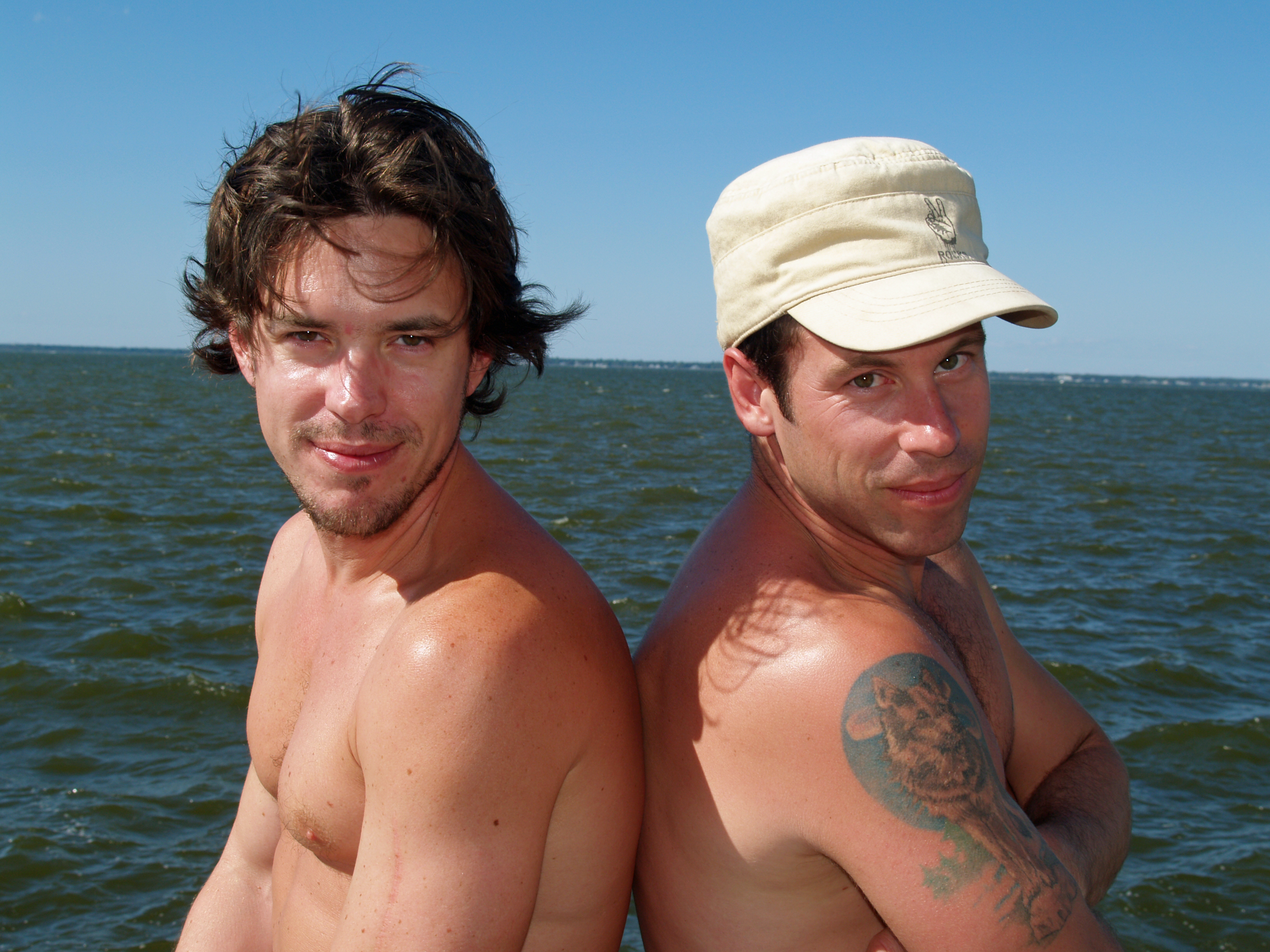 Paul Dawson and PJ DeBoy in August of 2008 on Fire Island at the home of Michael Lucas